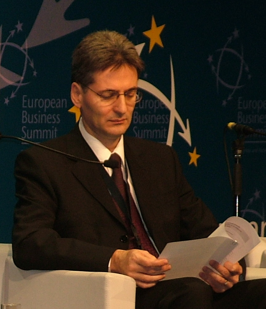 Toine Manders, Member of the European Parliament; Philippe de Buck, Secretary General, UNICE; Leonard Orban, European Commissioner for Multilingualism on Plenary session "(Young) Entrepreneurship: Europe is our business". 5th European Business Summit on the occasion of 50 Years of Europe, 16 March 2007